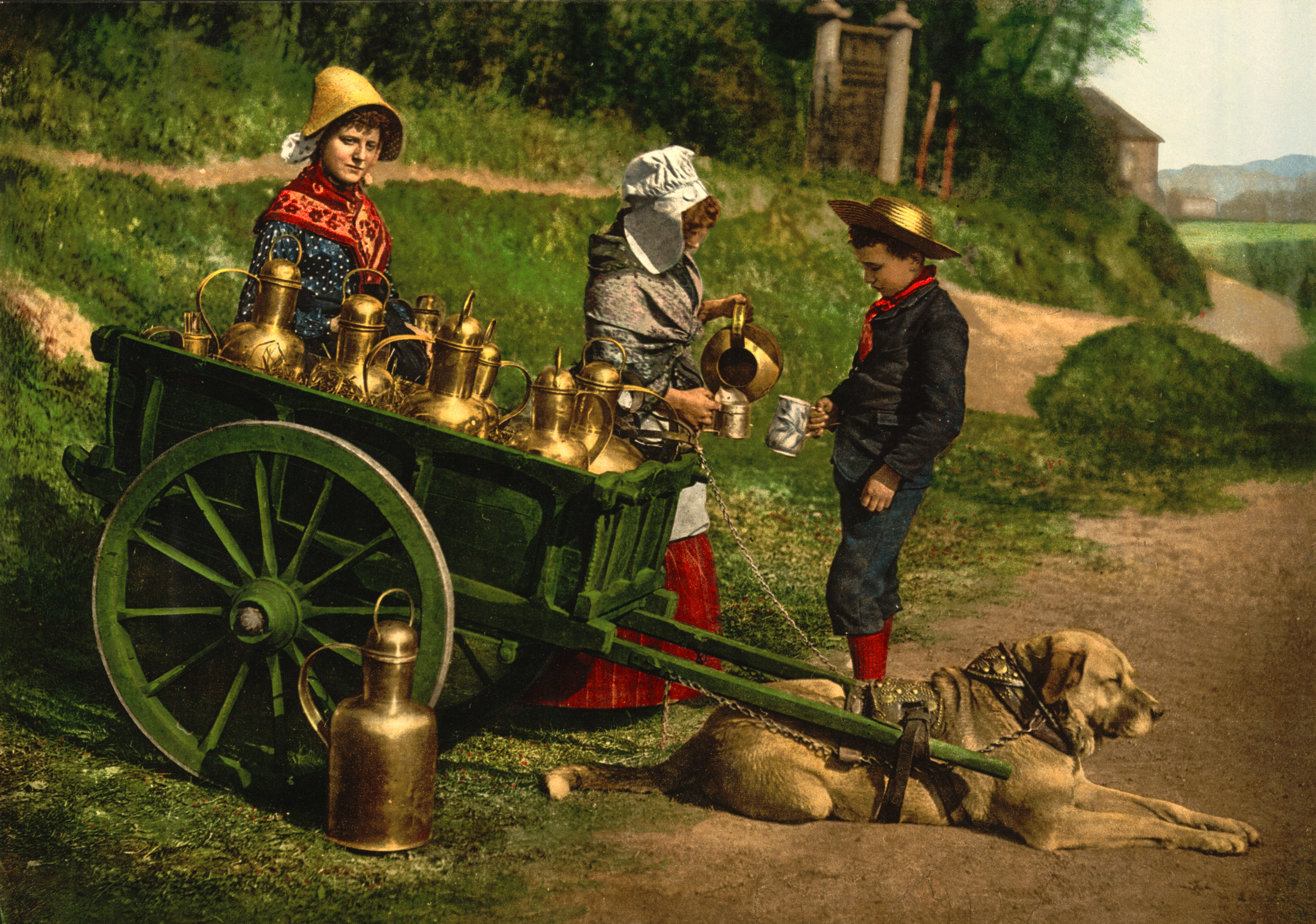 Milksellers, Brussels, Belgium with dogcart.